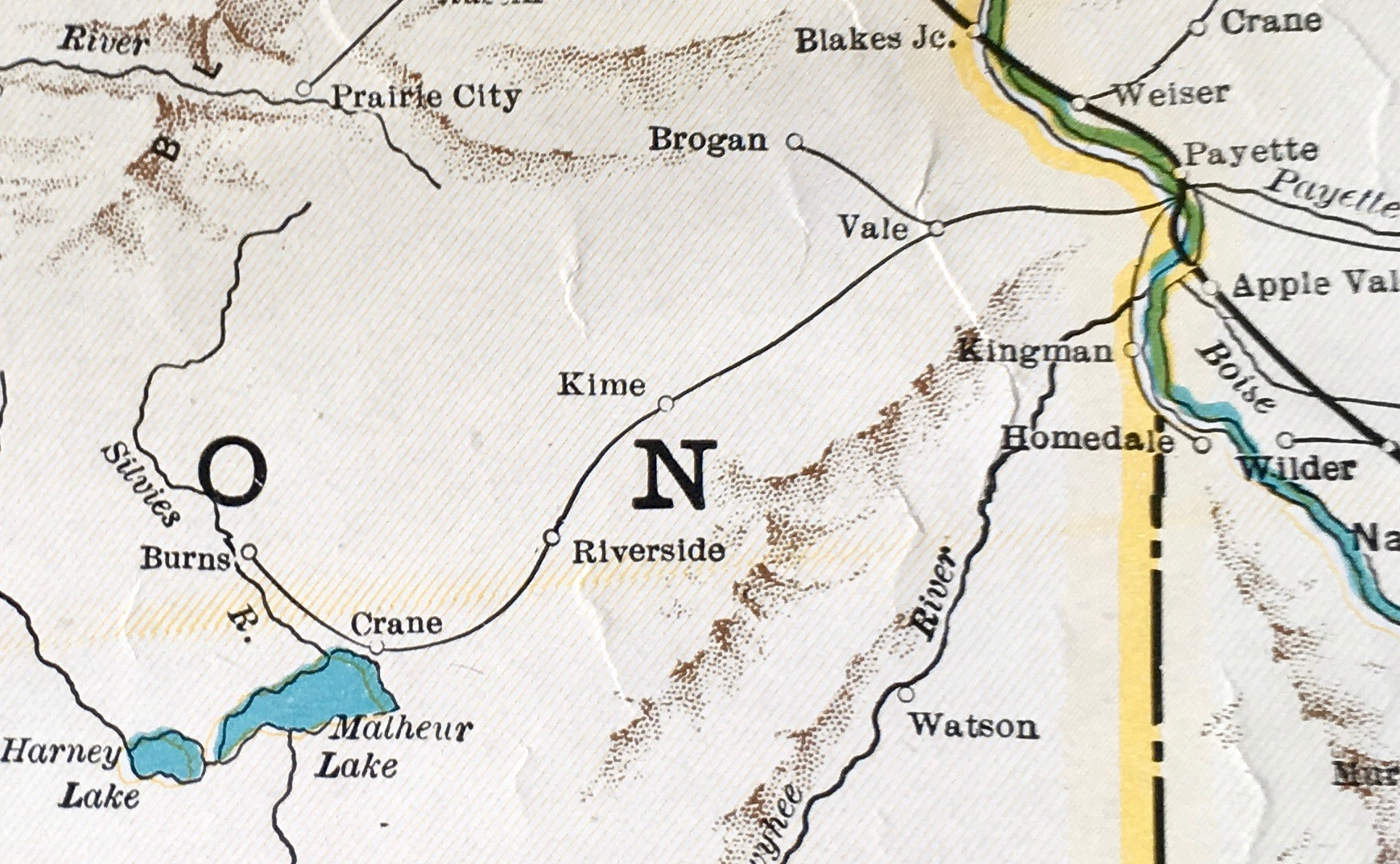 Route in 1931